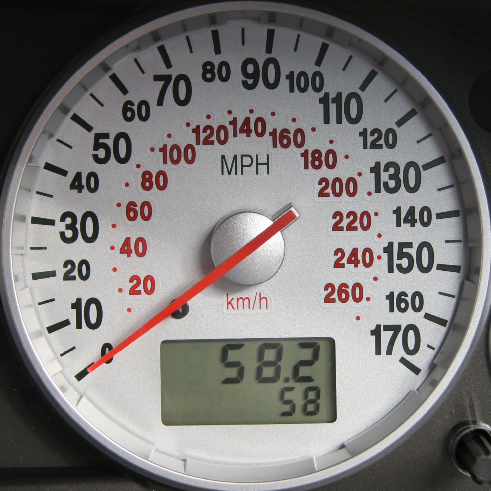 Speedometer in Ford Mondeo ST220 (MK3), showing mph and km/h along with an odometer and a separate "trip" odometer (both showing distance in miles).